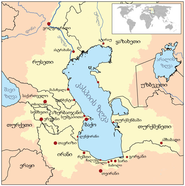 This is a map of the Caspian Sea including a small locator map. The drainage basin of the Caspian Sea is in yellow. The map is based on USGS and Digital Chart of the World data. Note the Aral Sea boundaries are circa 1960, not current boundaries.